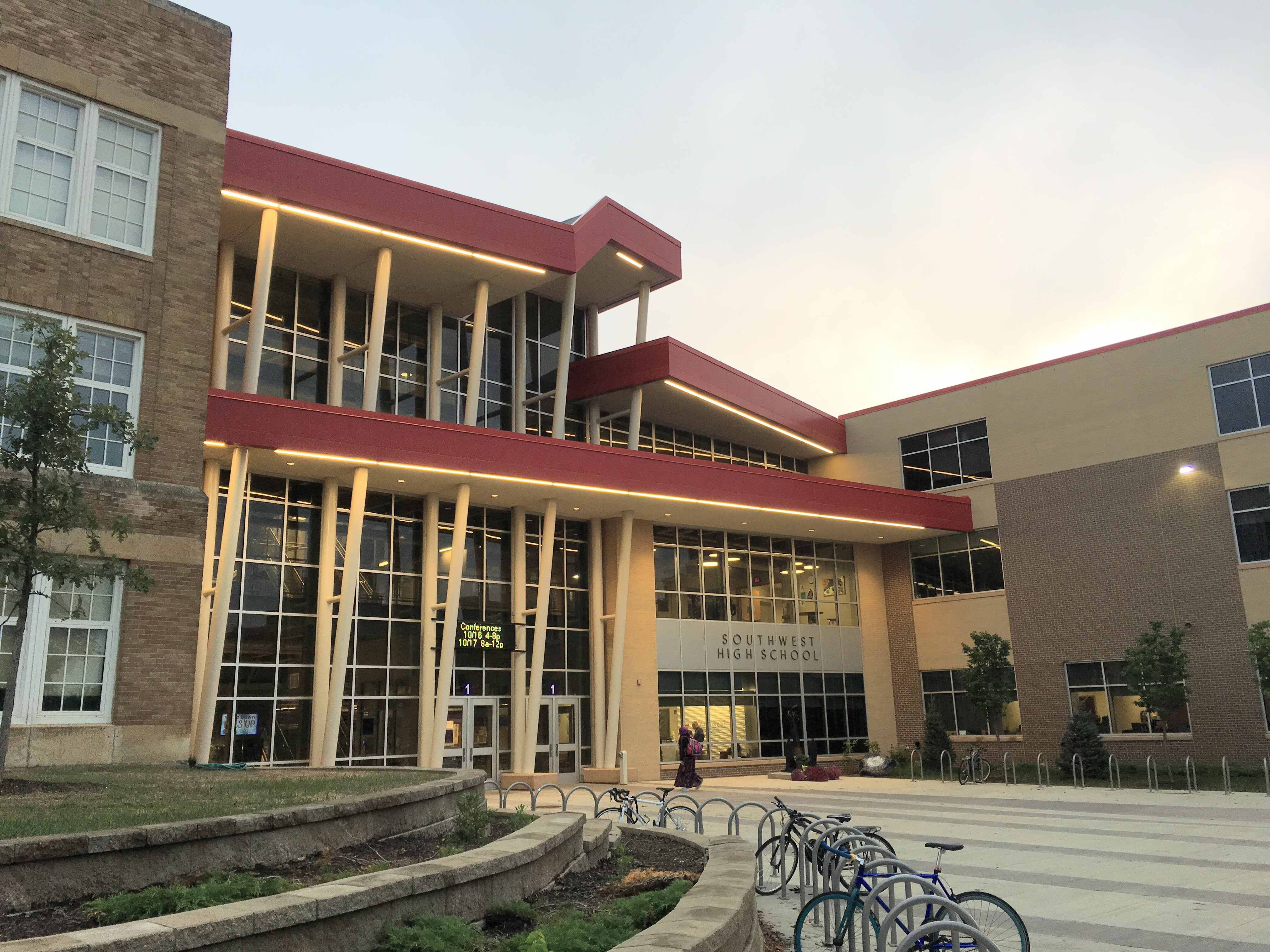 Southwest High School Minneapolis Main Entrance/Door 1 from 2016 renovation.